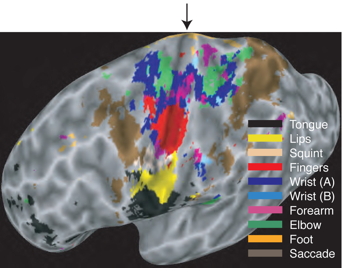 Map of the body in the human brain. The cerebral cortex has been “inflated” to show the results more clearly. Movements of different body parts evoked activity in the primary motor cortex (left of the central sulcus, shown by the arrow) and primary somatosensory cortex (right of the central sulcus). The map also shows eye-movement activity in the frontal eye field and the parietal cortex. The map is a winner-take-all. Although different body parts activated overlapping areas of cortex, only the strongest activations are indicated. The map in the primary motor cortex contains two common complexities. First, the hand representation (red) is surrounded on three sides by a representation of the wrist. Second, there are two distinct hand representations possibly corresponding to areas 4a and 4p.